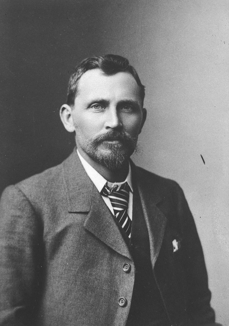 A photograph of John Henry Cann (1860-1940), former NSW treasurer, taken in 1902.